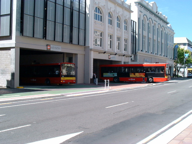 The Lichfield Street frontage of the Christchurch Bus Exchange in March 2001.